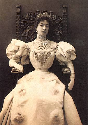 Olga de Meyer seated with Tiara